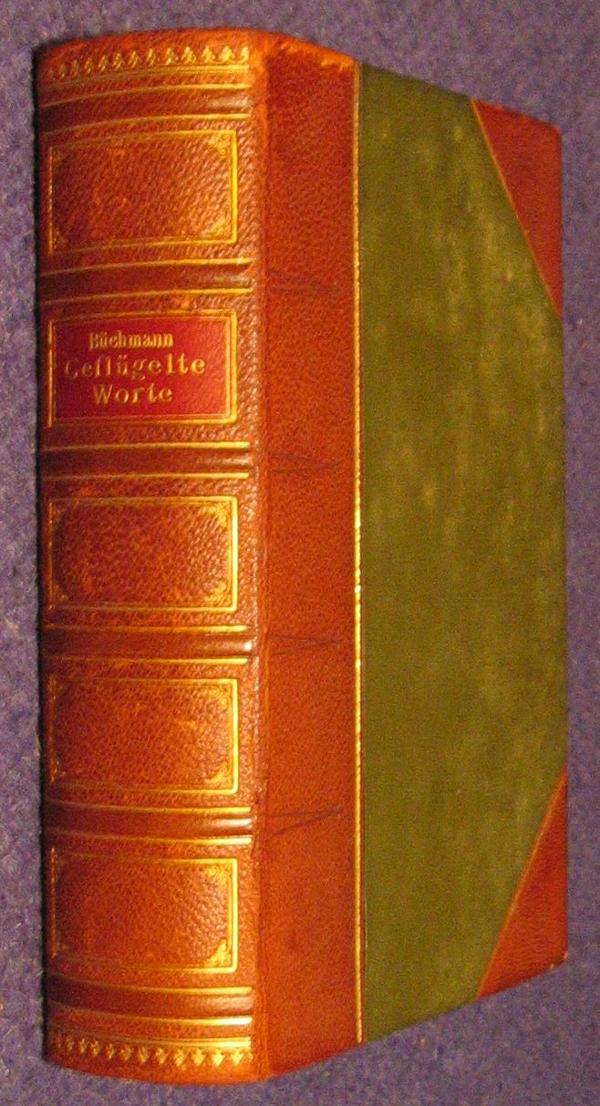 Book cover. Georg Büchmann, Geflügelte Worte, 19th edition, 1898.